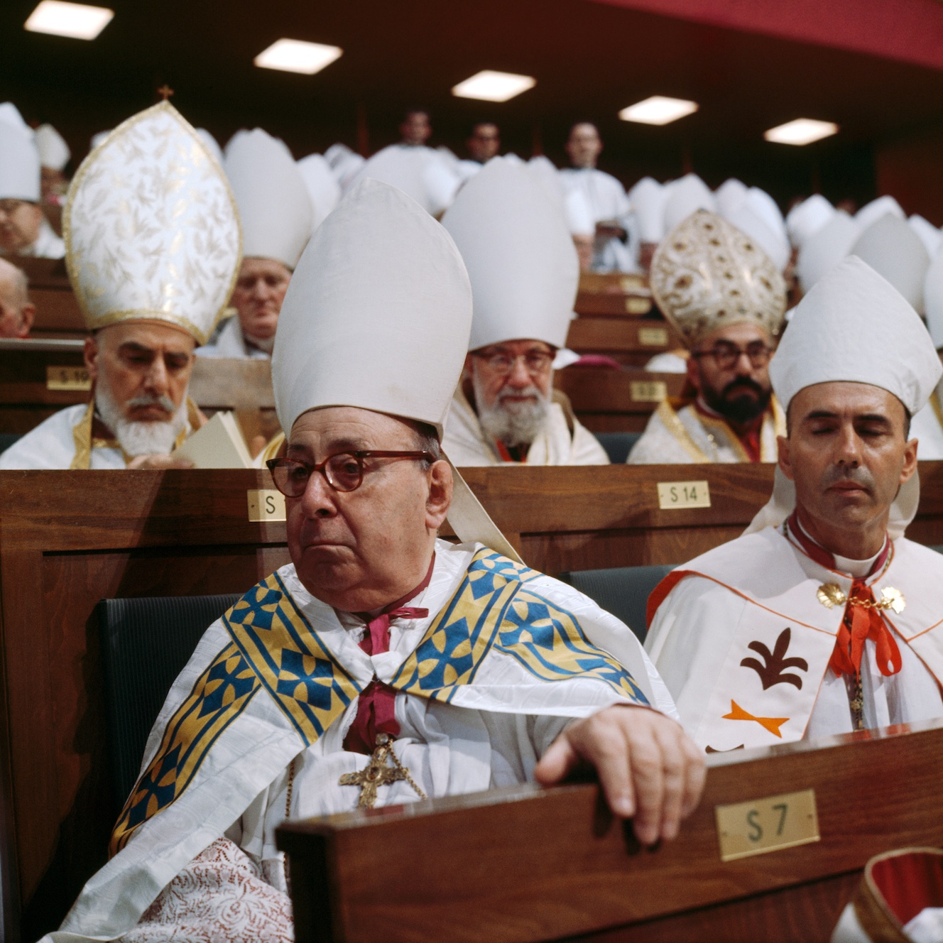 The Council Fathers seated during the Second Vatican Council